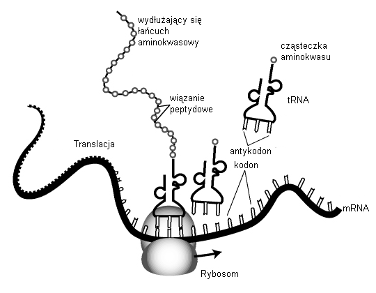 Translation proces.